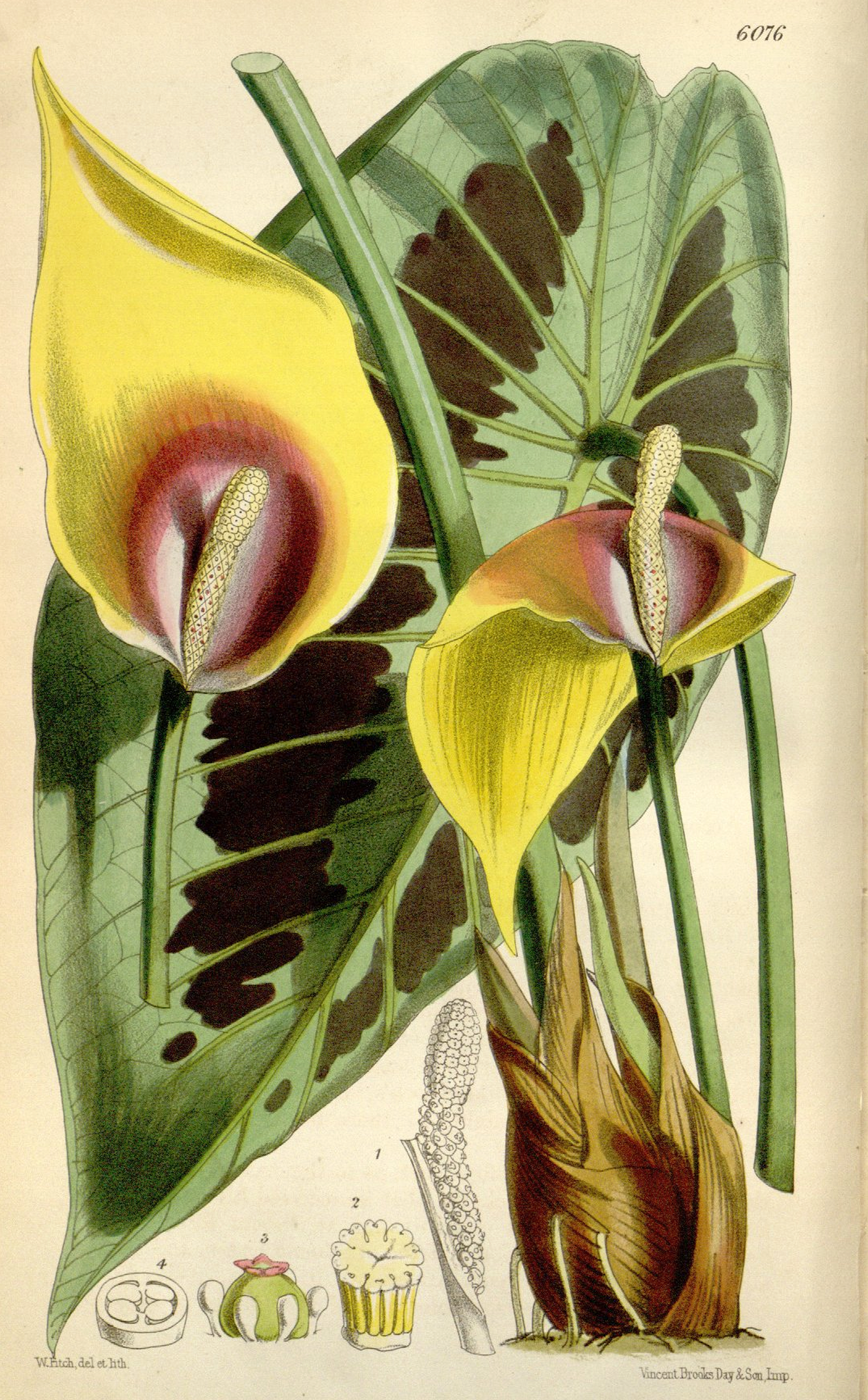 Steudnera discolor from Curtis's Botanical Magazine (wrongly described as S. colocasiifolia, redescribed in CBM v. 110)